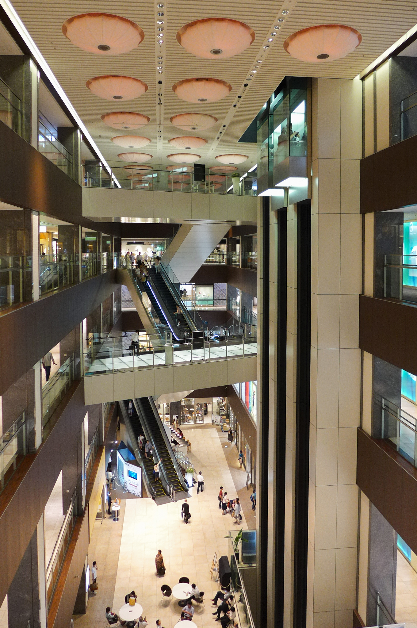 Midland Square Atrium